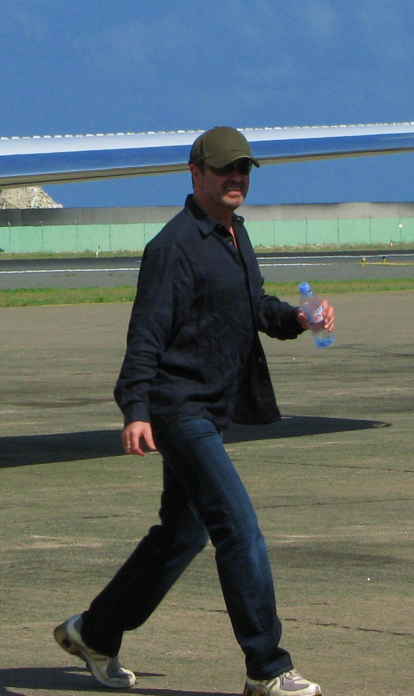 Climbing down from the private jet, George Michael arrived in Maldives to perform at the birthday party of British TopShop boss Sir Philip Green.